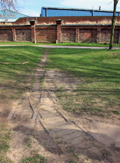 Fragment of narrow gauge railway line The rail was used for moving munitions from the factory down to the river Ouse (behind photographer). The line ran through a now-blocked gateway in the wall. A nearby noticeboard explains: Military stores were unloaded at an Ordnance Wharf, built in 1888, and taken to the army depot in Hospital Fields Road on a narrow gauge railway, a small section of which is still visible at the southern end of New Walk. Explosives were brought in the schooner ‘Princess’ known locally as the ‘Powder boat’.(1)